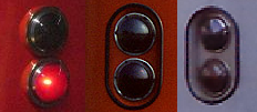 Confronto fra fari dei treni tradizionali della metropolitana di Milano